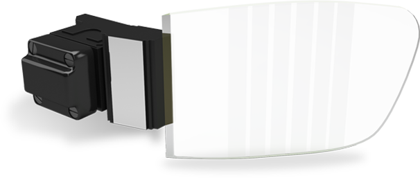 OE-40 Image